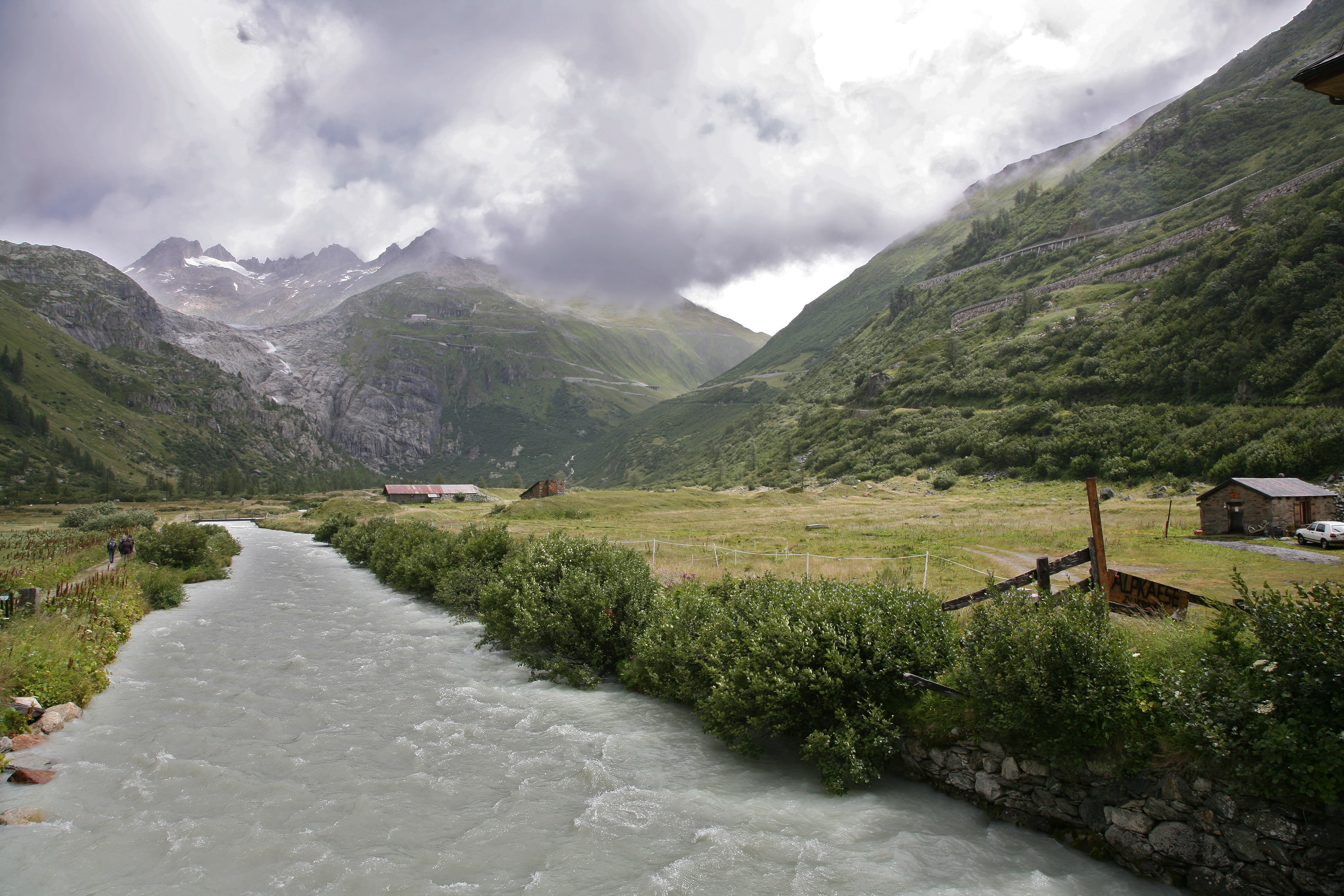 Upper reaches of the Rhone river, Rhone glacier and Furka mountain pass in the background.